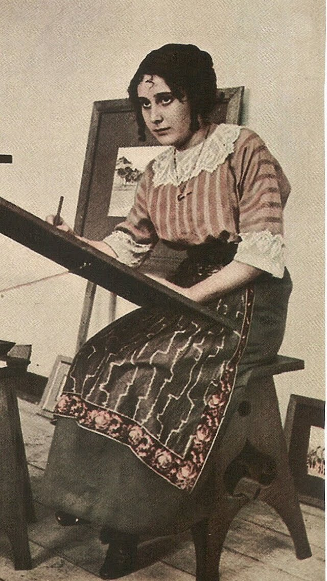 Cover of 27 Nov. 1911 issue of Ilustração Portuguesa, with hand-tinted photograph of Raquel Roque Gameiro